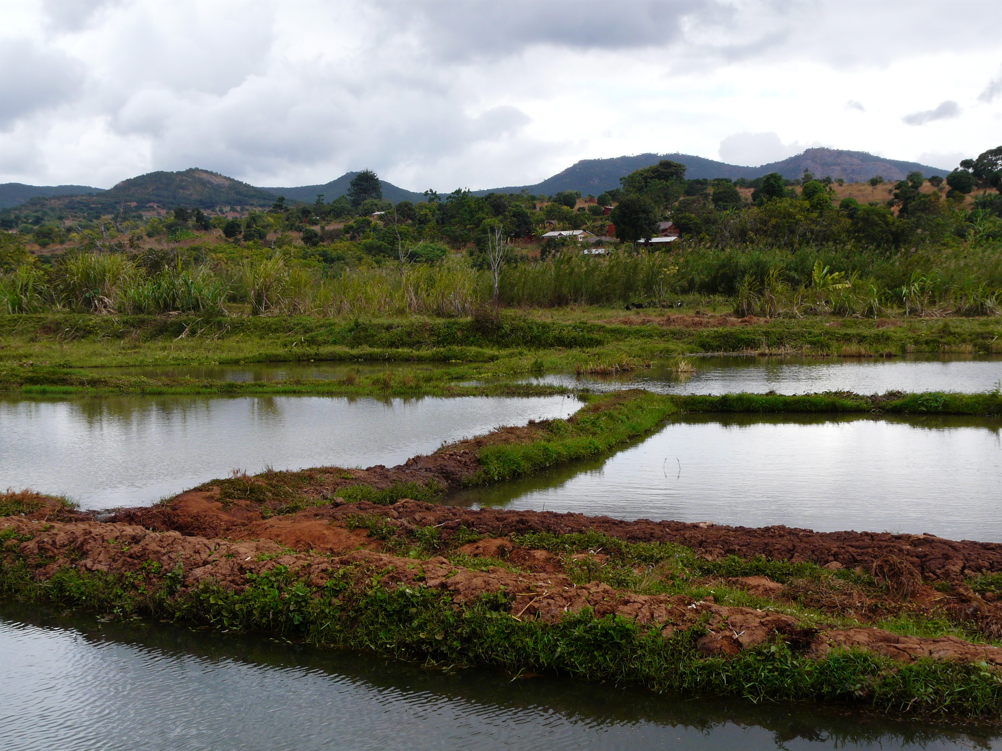 Ponds in Songea, the capital of Ruvuma Region in southern Tanzania